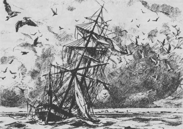 Wreck of the Invincible, The Texas Navy. Naval History Division, U.S. Department of the Navy. GPO:1968.